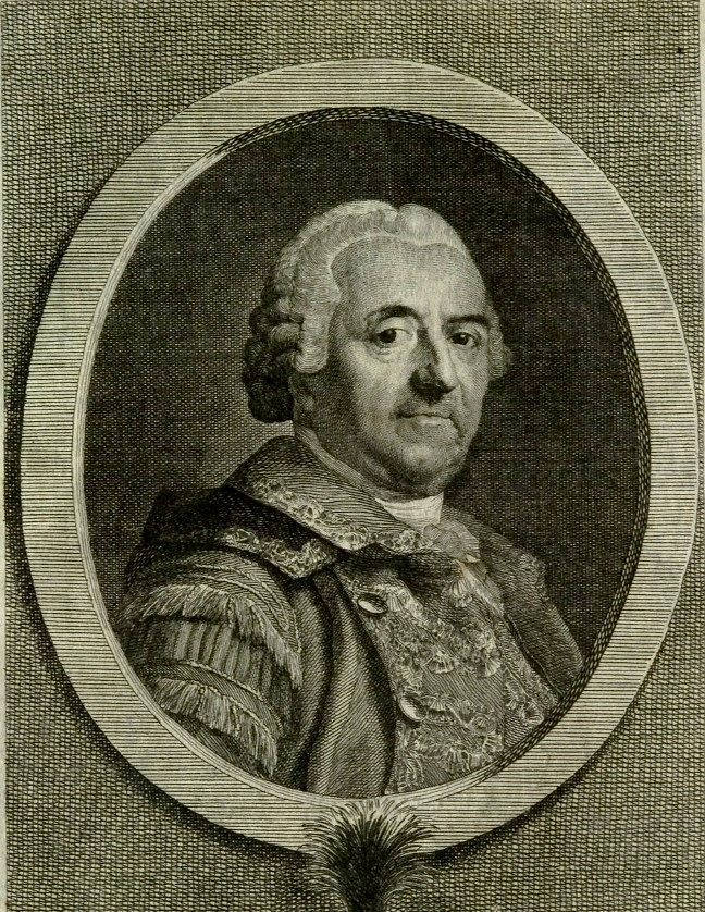 Christlieb Ehregott Gellert (1713-1795), famous saxon metallurgist and mineralogist.